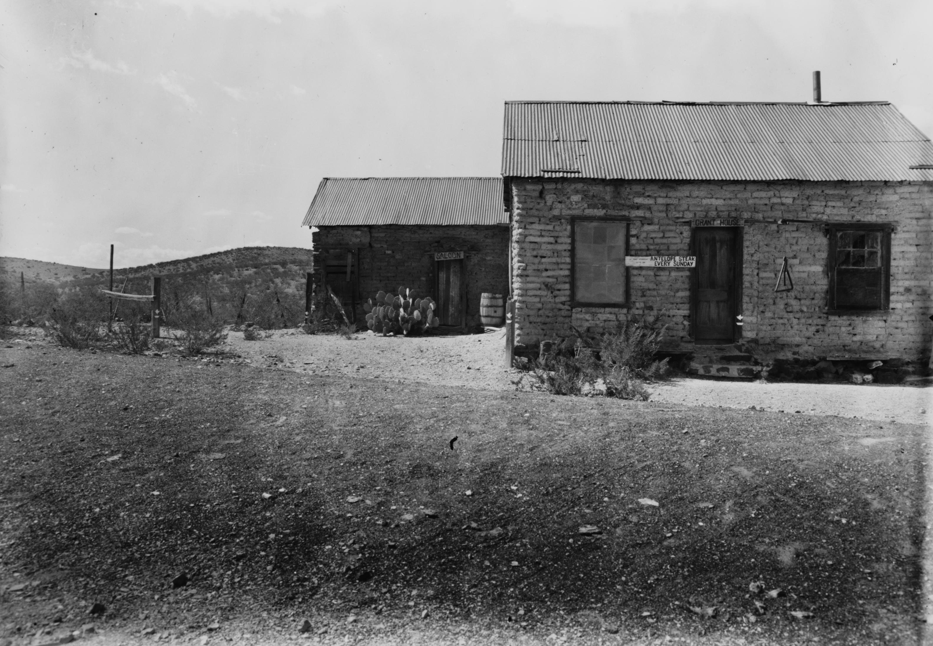 Buildings in the ghost town of Shakespeare in Hidalgo County, New Mexico, United States. The entire ghost town is listed as a historic district on the National Register of Historic Places.